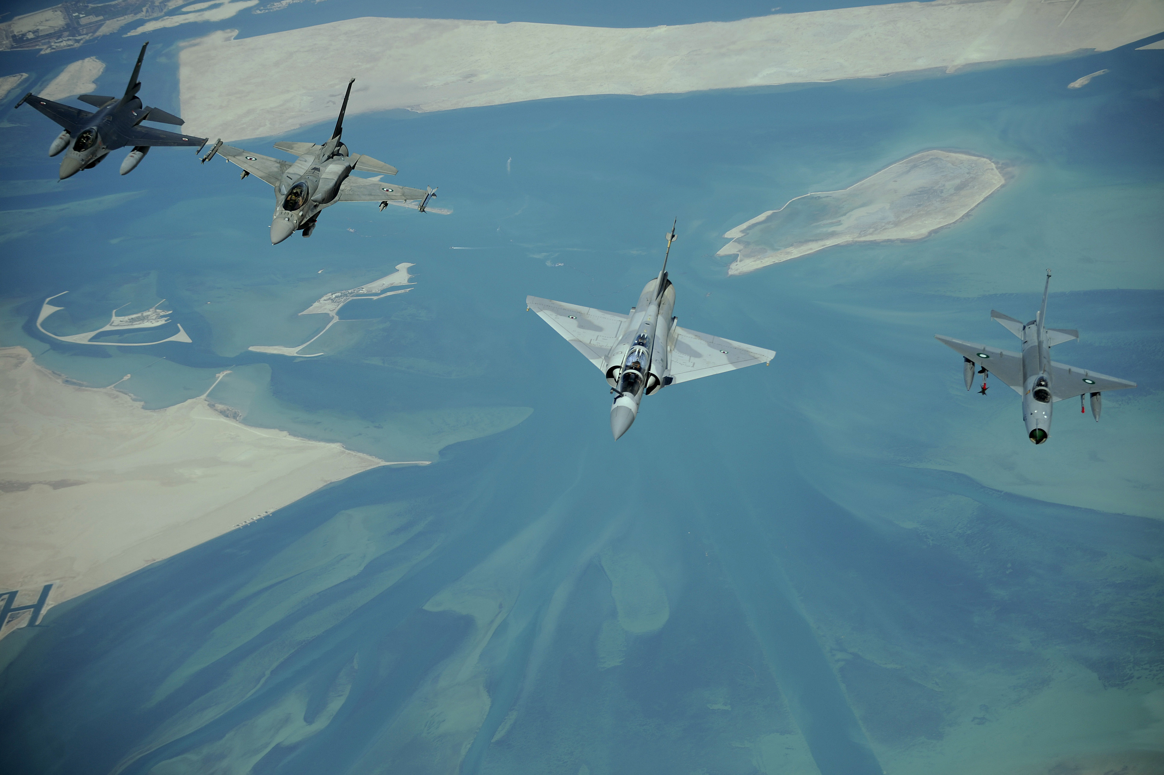 Multinational Exercise Emirati F-16's, an Emirati Mirage 2000, and a Pakistani F-7, left to right, fly in formation during a multinational exercise, Dec. 9, 2009. Aircrews from France, Jordan, Pakistan, the U.A.E., the U.K., and the U.S. trained together in the Air Forces Central area of responsibility in fighting a large-scale air war. (U.S. Air Force photo by Staff Sgt. Michael B. Keller) (Released)